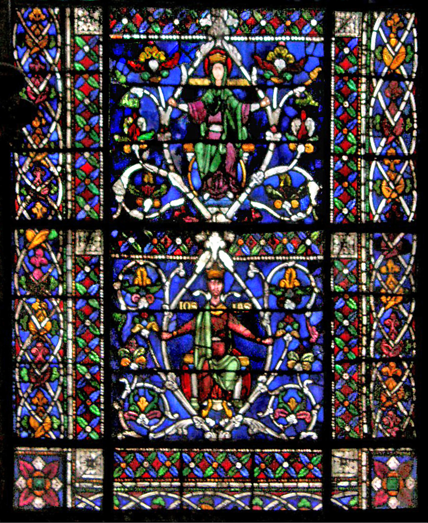 Canterbury Cathedral, stained glass window- Two panels from a missing Jesse Tree window (showing ancestors of Christ) were returned to the cathedral. Note- extensively digitally enhanced to bring out details which are apparent to the eye, but hard to photograph.